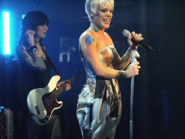 P!nk performing at a secret London gig to promote the Funhouse Album.